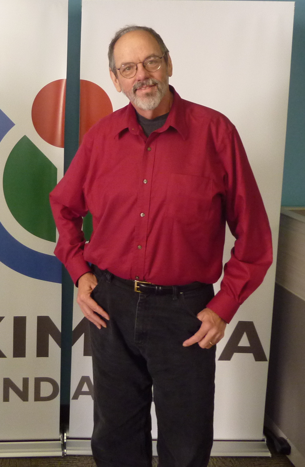 Ward Cunningham at the Wikimedia Foundation offices in San Francisco.